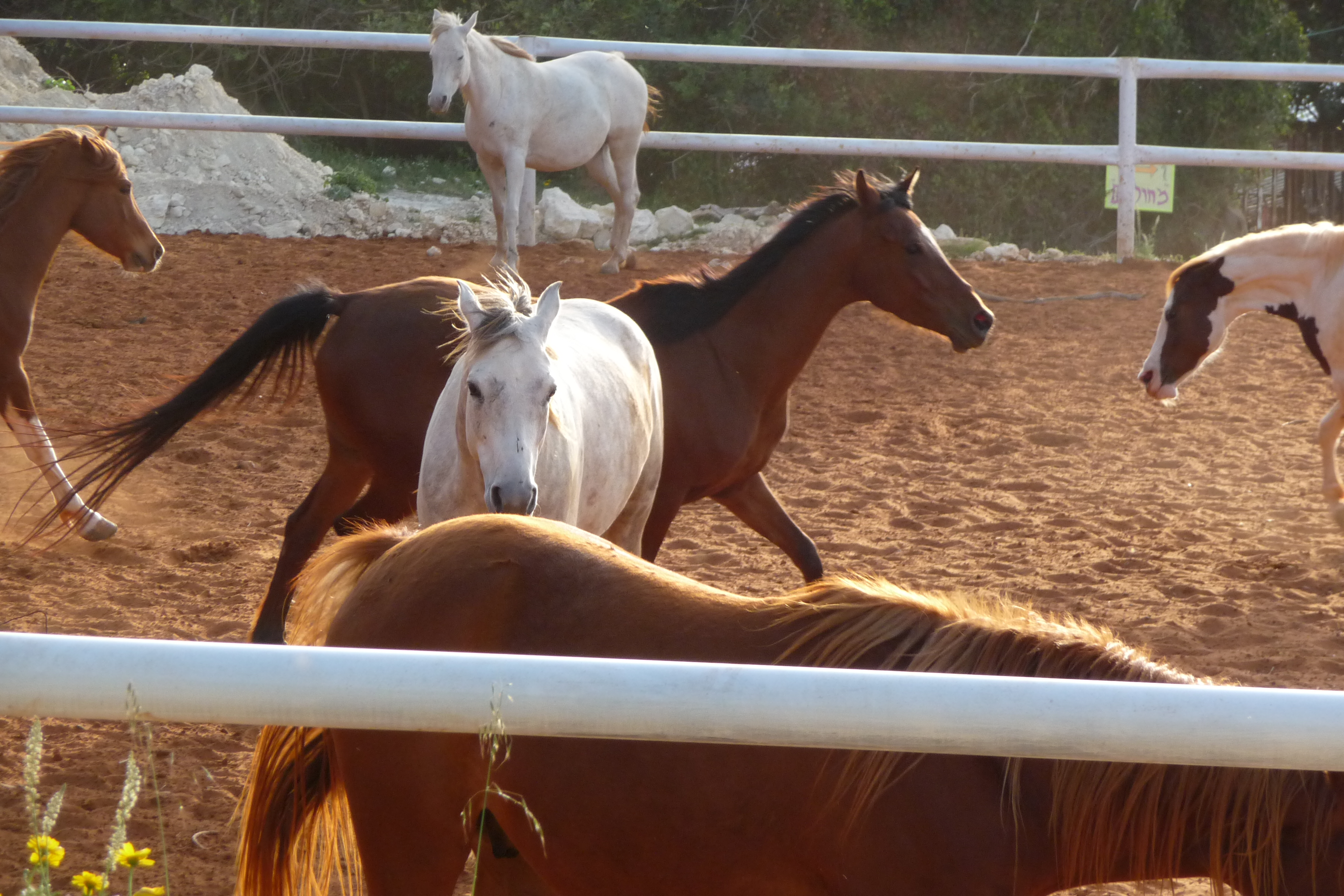 IBet Oren